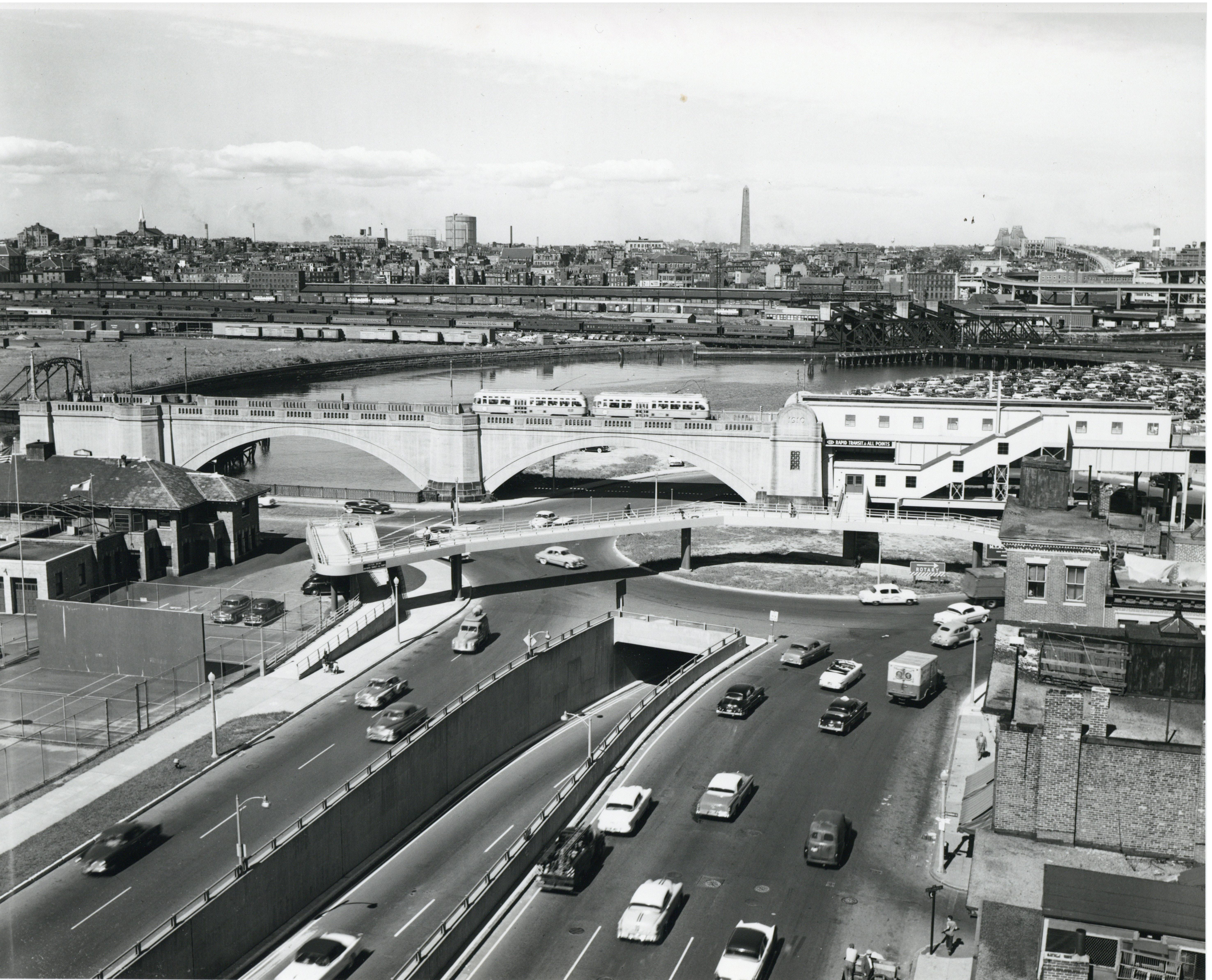 The newly opened Science Park station in August 1955